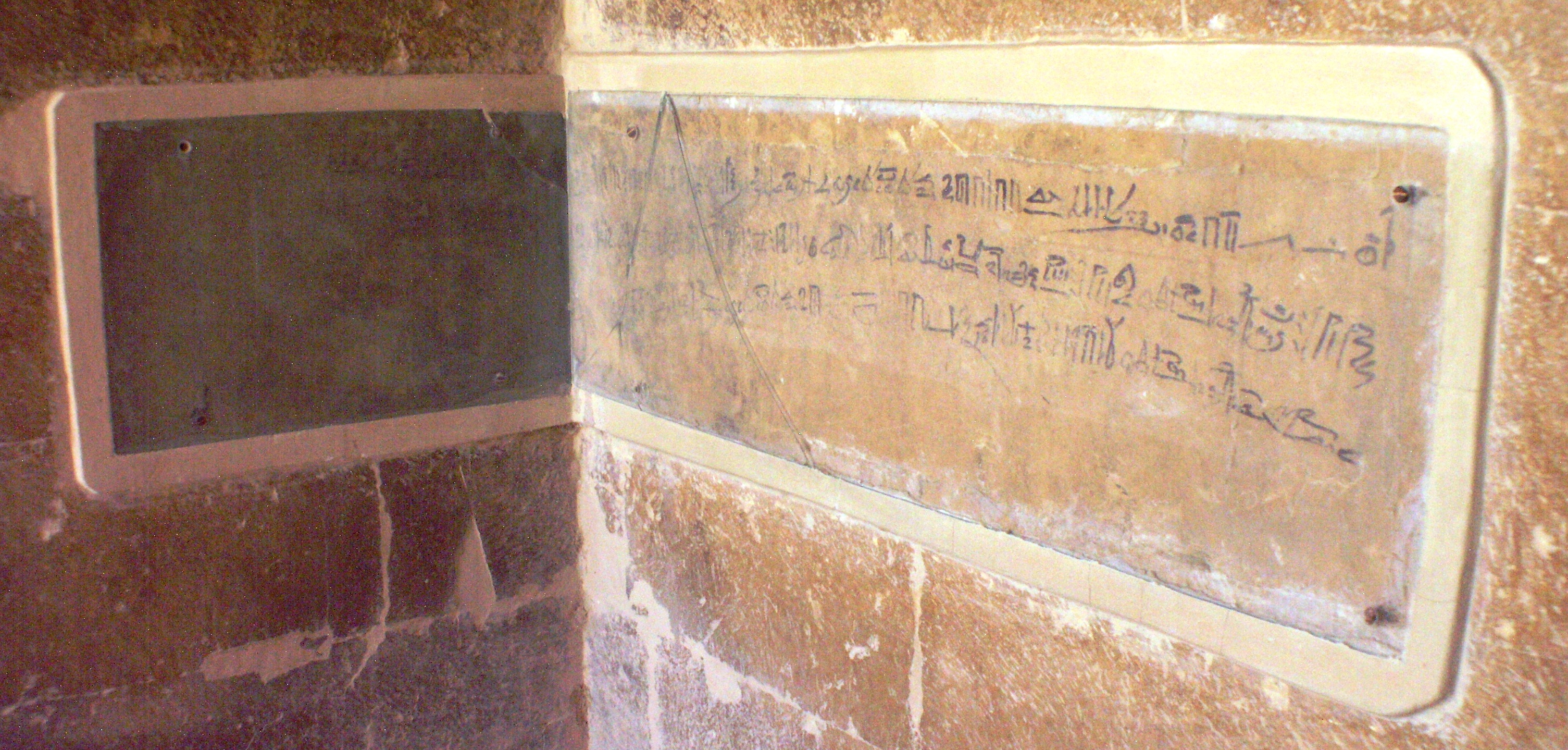 Saqqara - Pyramid of Djoser complex - 18th and 19th Dynasty graffiti in the Southern Pavilion